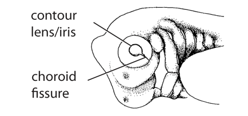 Standard Event System character depiction